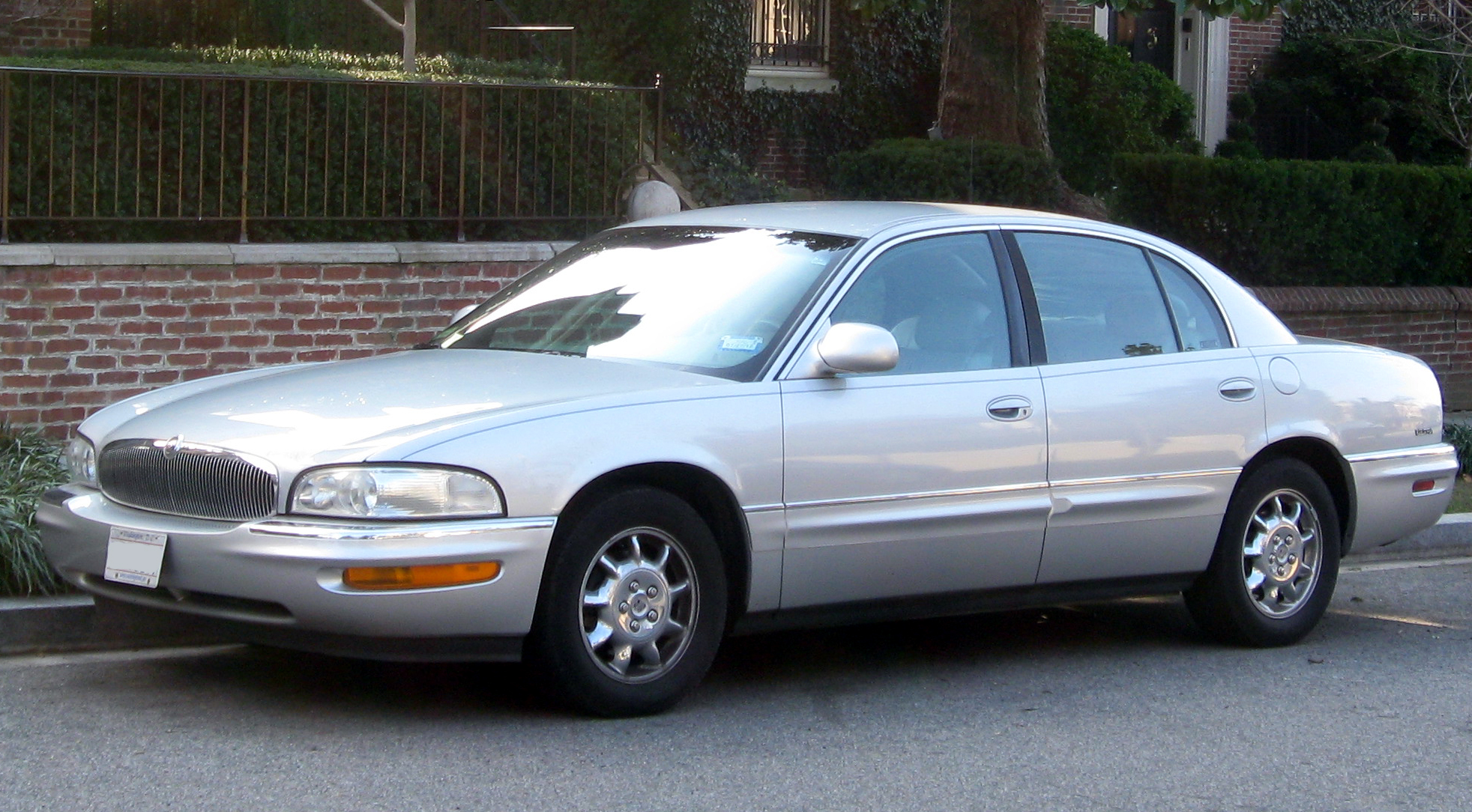 1997-2001 Buick Park Avenue photographed in Washington, D.C., USA.